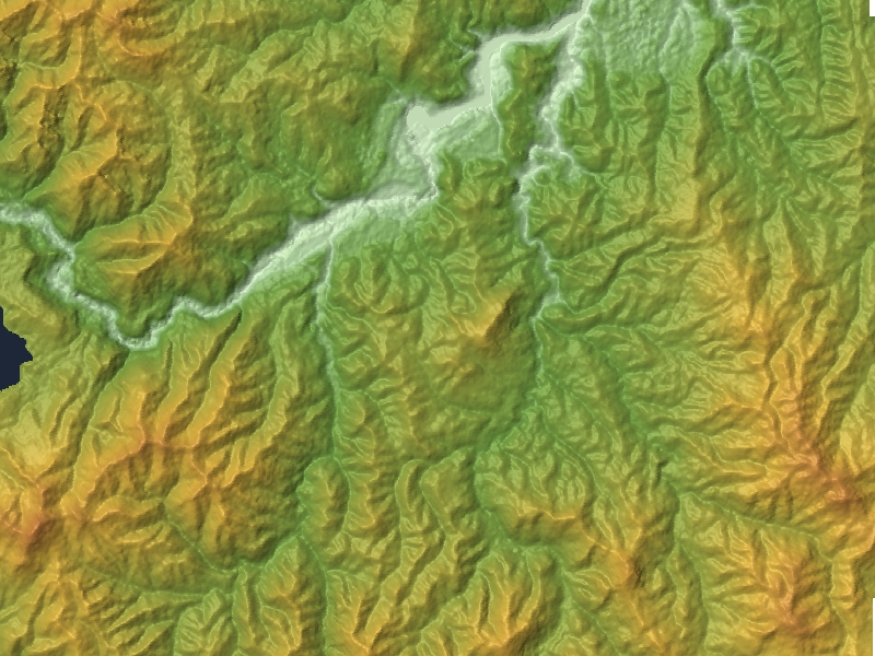 Sunagohara Caldera in Fukushima Prefecture, Honshu, Japan.